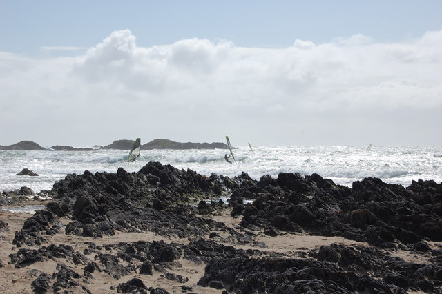 Windsurfers at Rhosneigr beach.